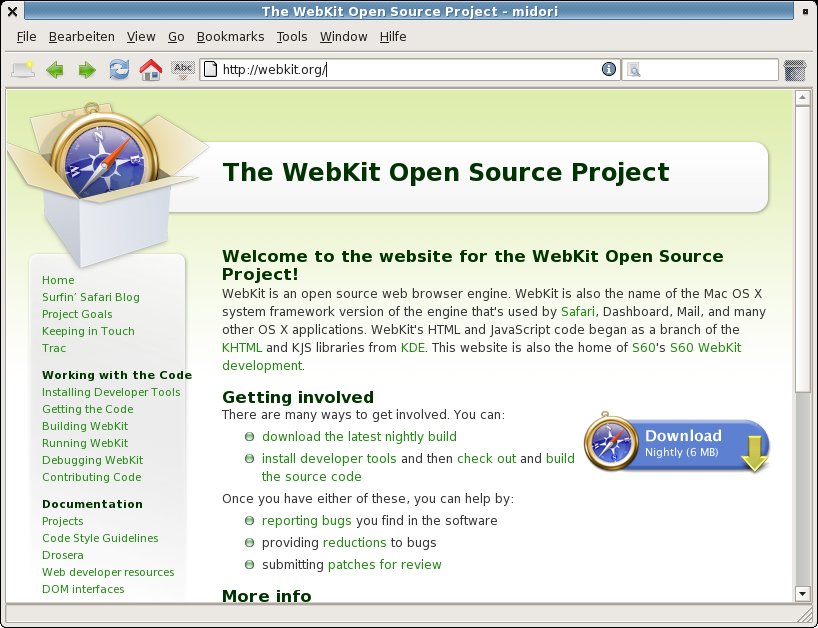 Midori web browser